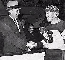 Ace Bailey (left) of the Toronto Maple Leafs shakes the hand of Eddie Shore, defenceman for the Boston Bruins at the benefit NHL All-Star Game held in honour of Bailey. Shore's hit on Bailey in a December 12, 1933 game, which ended the career and nearly killed Bailey, led the NHL to stage the benefit game. The concept of an All-Star Game would later become a permanent fixture for the NHL.